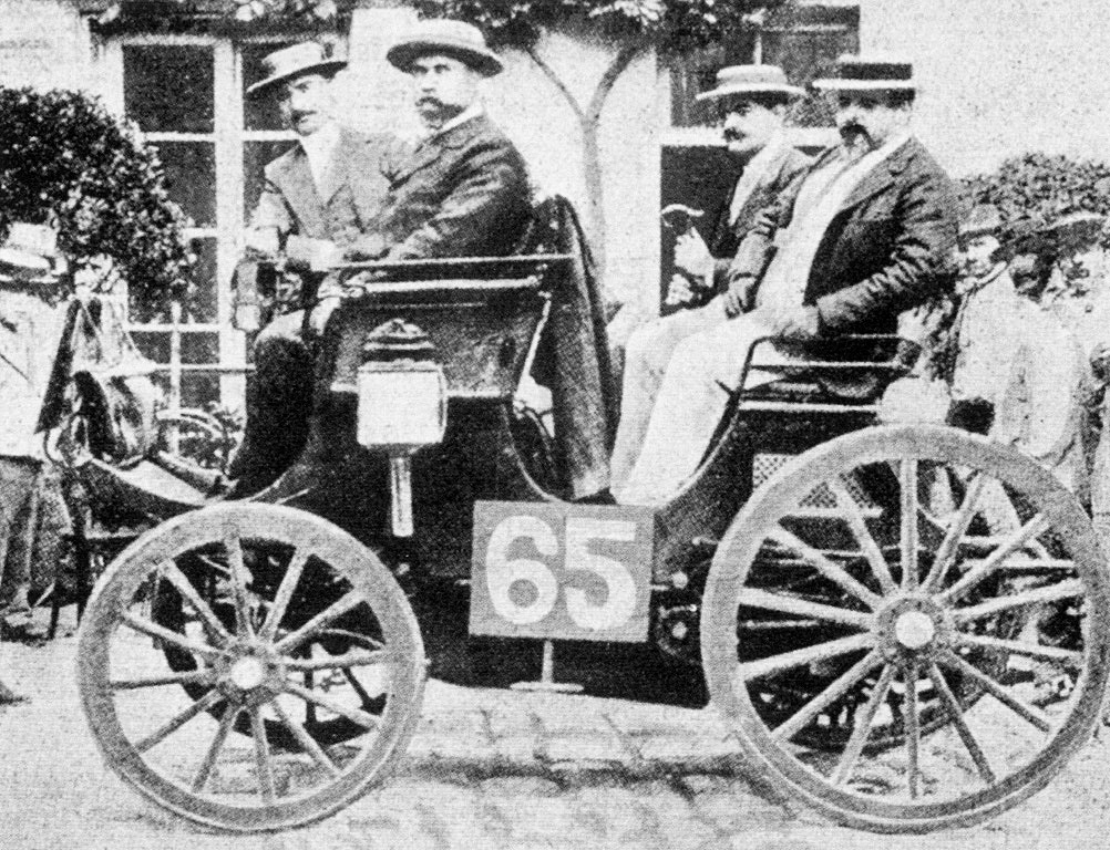 #65 Albert Lemaître in Peugeot 3hp at 1894 Paris-Rouen race (2nd place) but judged the official winner. Adolphe Clément is the front seat passenger.